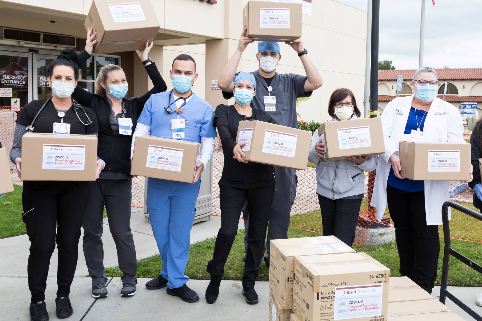 BAPS Charities donates PPE to Chino Valley Med Center